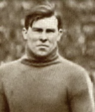 Photograph of Belgian national football goalkeeper Jean De Bie